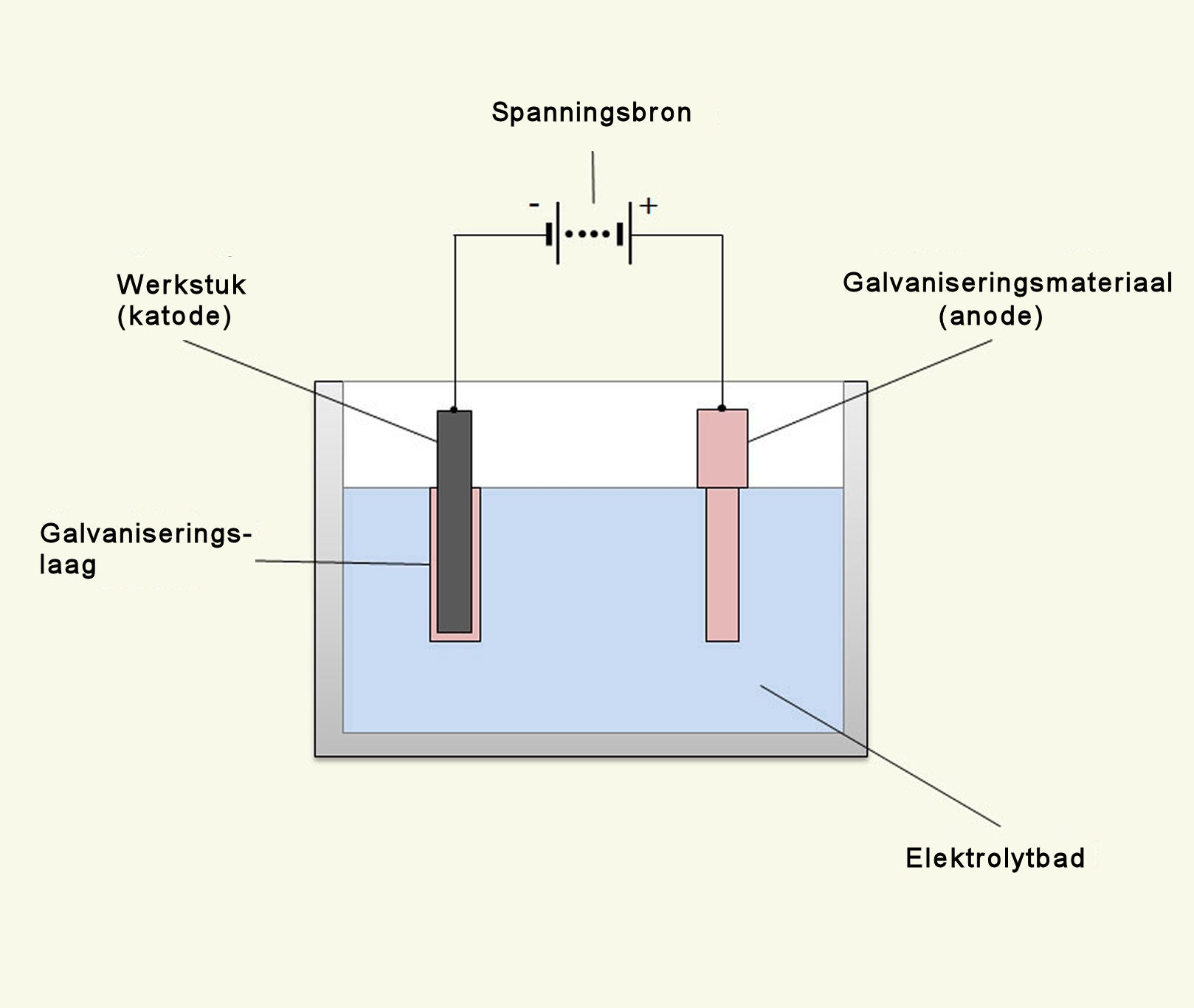 Galvanic techniques (or electroplating) describe the electrochemical precipitation of metallic layers onto metals or plastics.